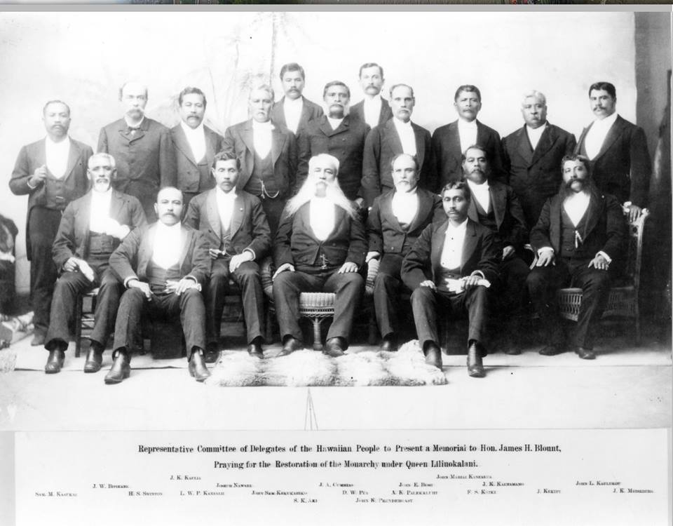 Hui Aloha ʻĀina o Na Kane or the Hawaiian Patriotic League for Men, which petitioned against annexation. Representative Committee of Delegates of the Hawaiian People to present a memorial to Hon. James H. Blount, praying for the restoration of the monarchy under Queen Liliuokalani. Left to right: Sam M. Kaaukai, J. W. Bipikane, H. S. Swinton, J. K. Kaulia, L. W. P. Kanealii, Joseph Nawahi, John Sam Kikukahiko, S. K. Aki, J. A. Cummins, D. W. Pua, John K. Prendergast, A. K. Palekaluhi, John E. Bush, John Mahiai Kaneakua, F. S. Keiki, J. K. Kaunamano, J. Kekipi, John Lota Kaulukou, and J. K. Merseburg.